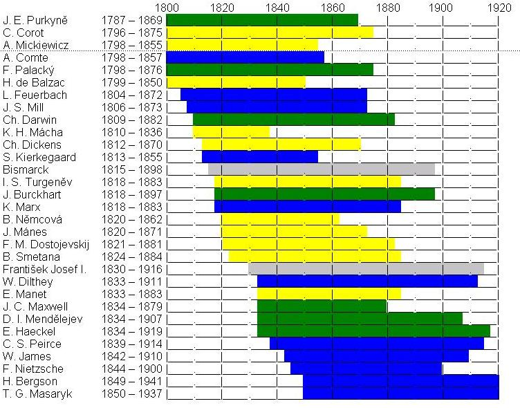 chronology table of philosophy around 1860.)